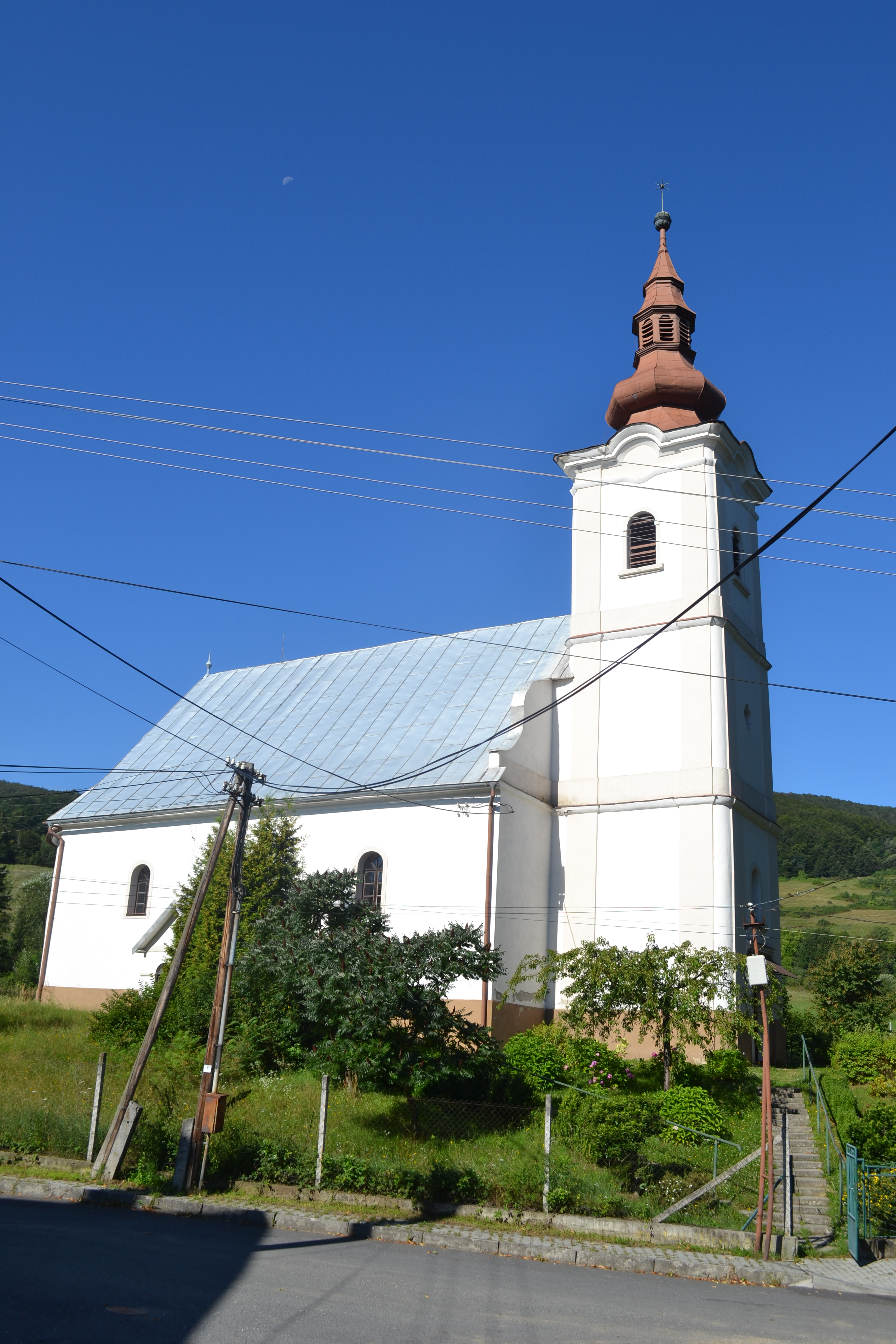 Evangelical Church in Málinec, the original church was built here around the 14th centurySlovenčina: Evanjelický kostol v Málinci, pôvodný kostol postavili na tomto mieste približne v 14. storočí Object location48° 29′ 45.49″ N, 19° 40′ 42.92″ E